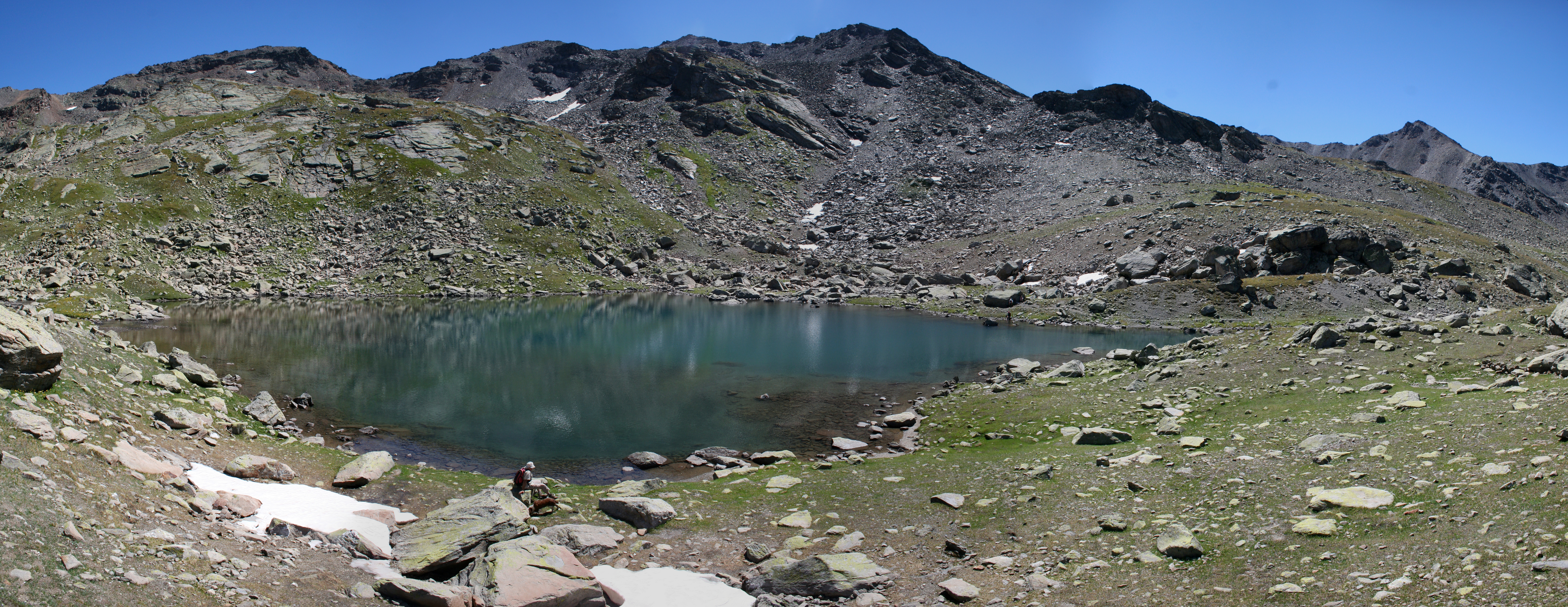 Panoramic view over Muandes Lake, in the Clarée Valley. Hautes alpes département, France.